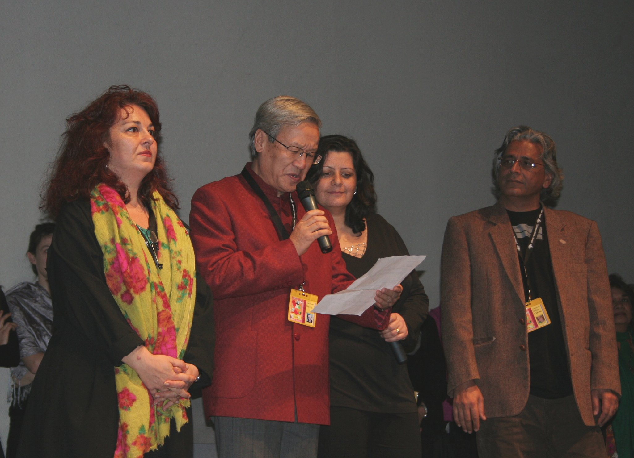 Jury International, Defne Gürsoy, Xie Fei, Houdra Ibrahim, Dilip Varma